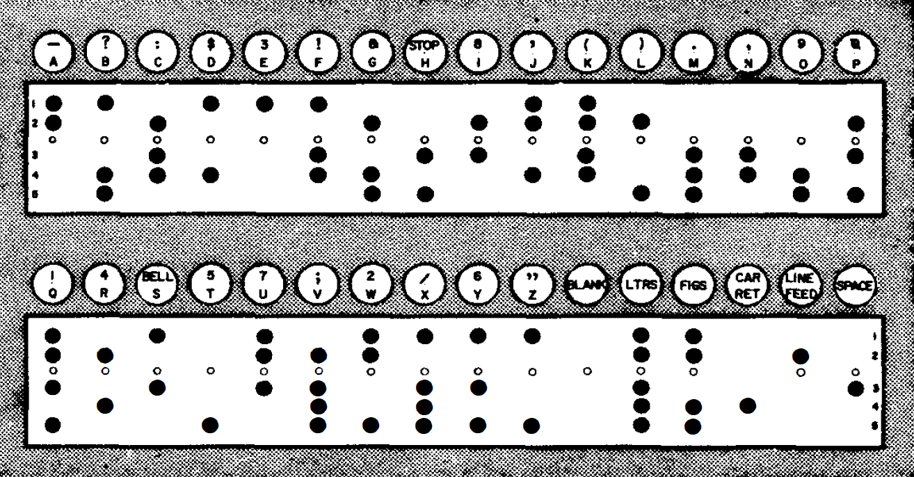 The U.S. navy 5-unit teleteypwriter (TTY) code used for automated radioteletypewriter (RATT) communications. This is the ITA2 version of the Baudot–Murray code.